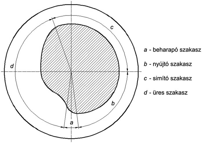 Zones of a pilger roll